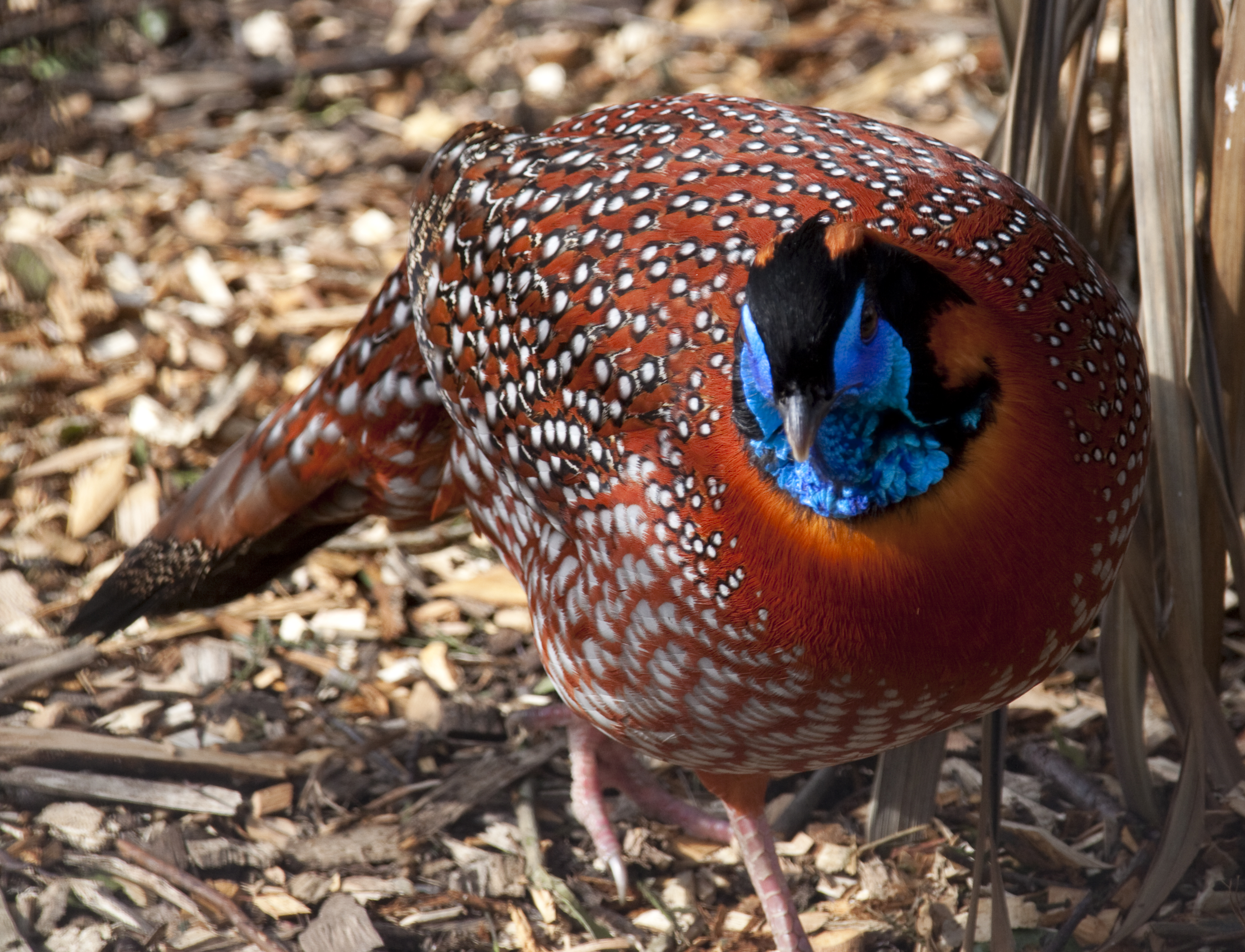 Temmincks Tragopan 1